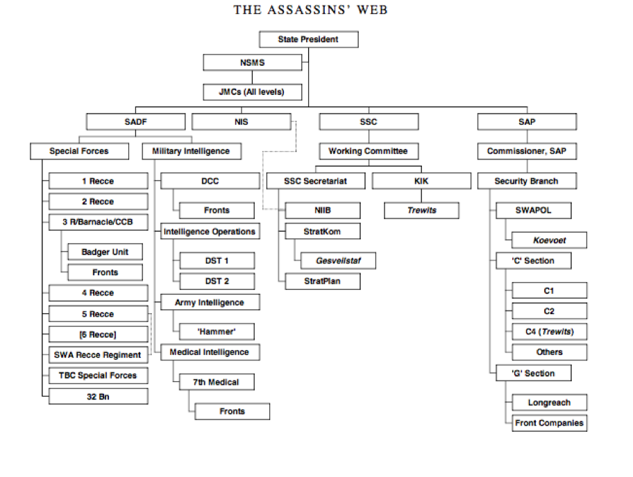 State Security Administrative Hierarchy